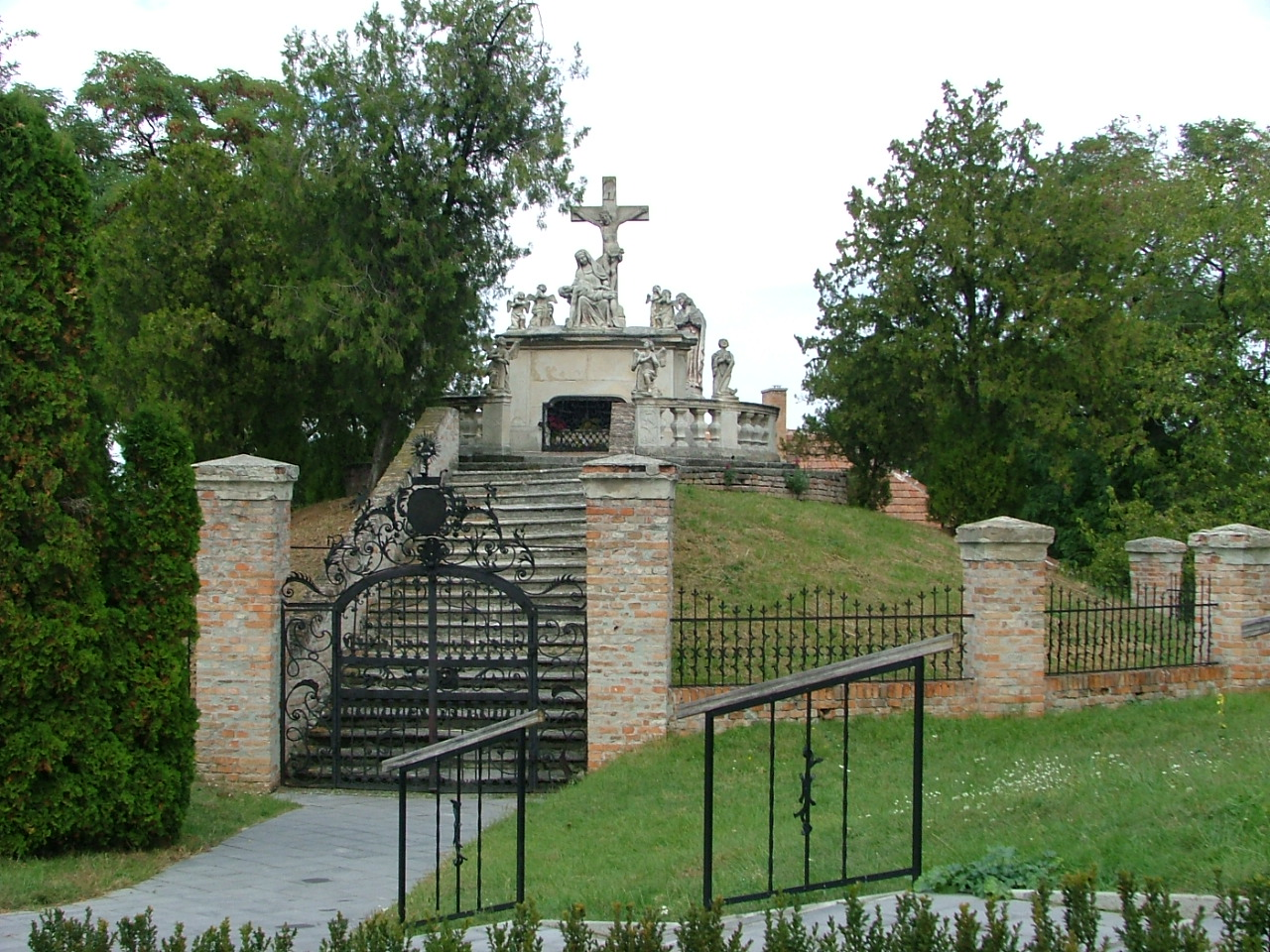 Fertőszéplak, Calvary This is a photo of a monument in Hungary, Identifier: 4132